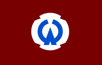 Flag of Otsuchi Iwate